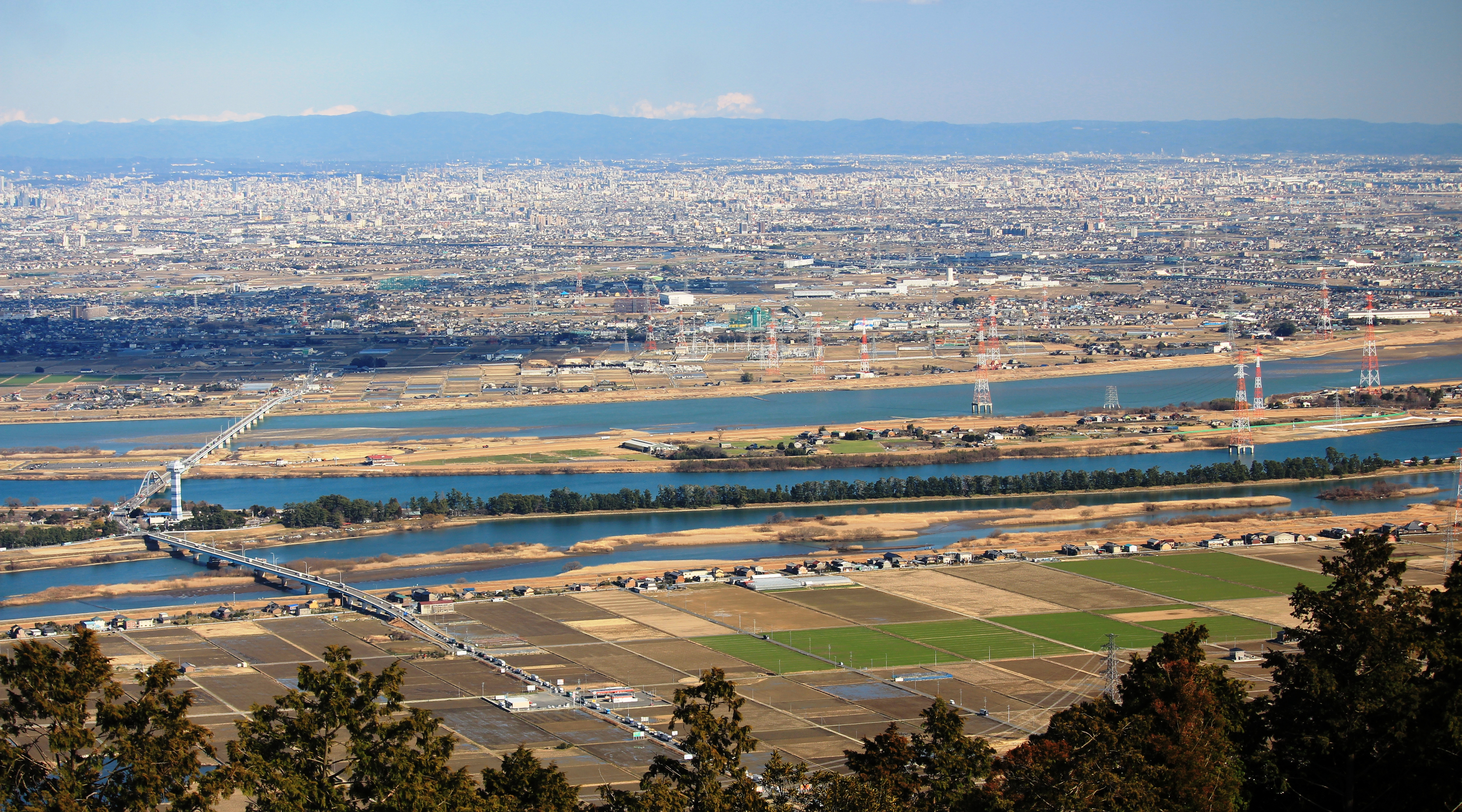 Senbonmatsubara seen from Mount Tado in Kaizu, Gifu prefecture, Japan.